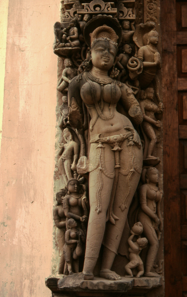 Yamuna Museum, Khajuraho, Madhya Pradesh, India